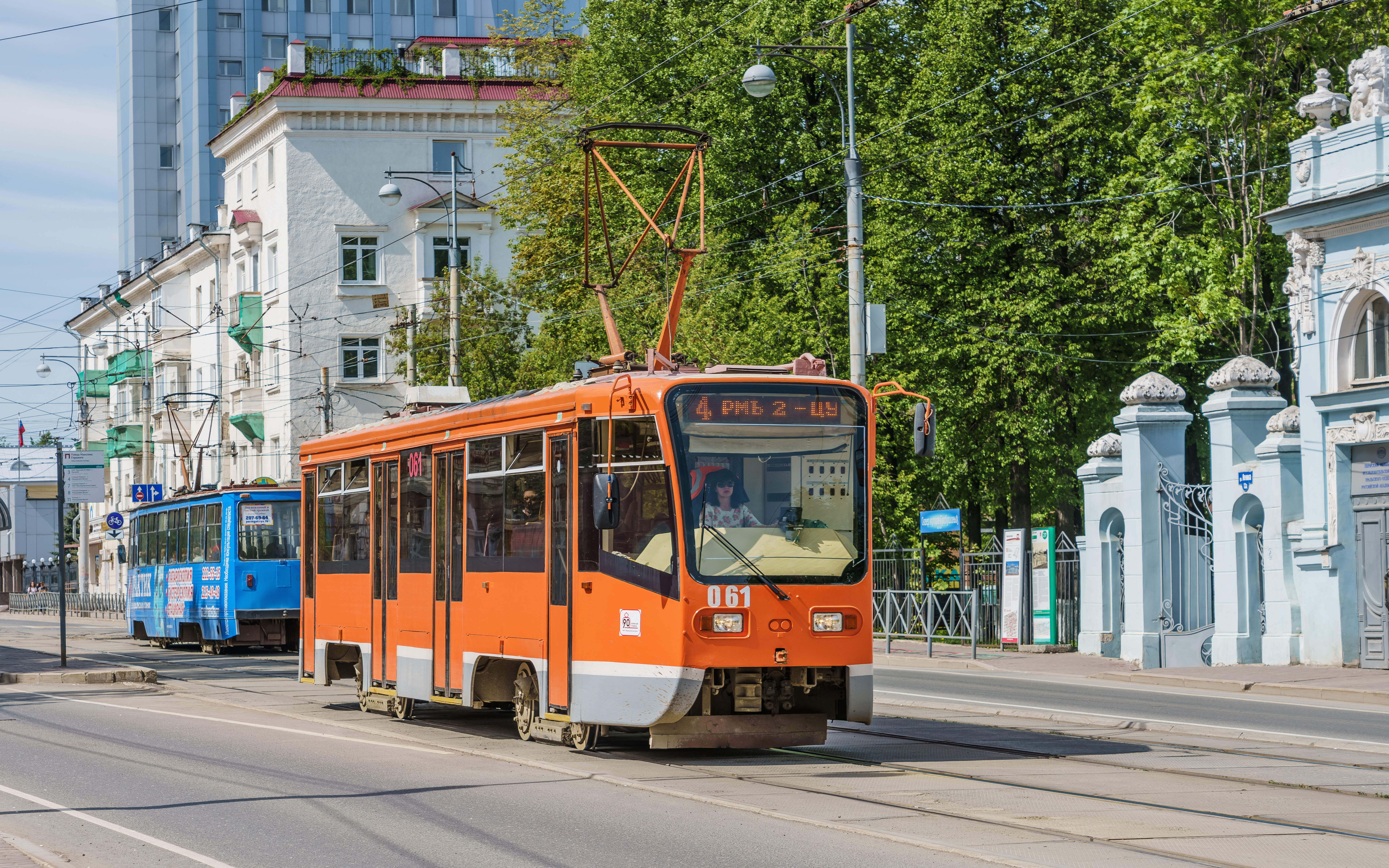 KTM-19 tram on Lenina Street (Maxim Gorky Street stop) in Perm, Russia